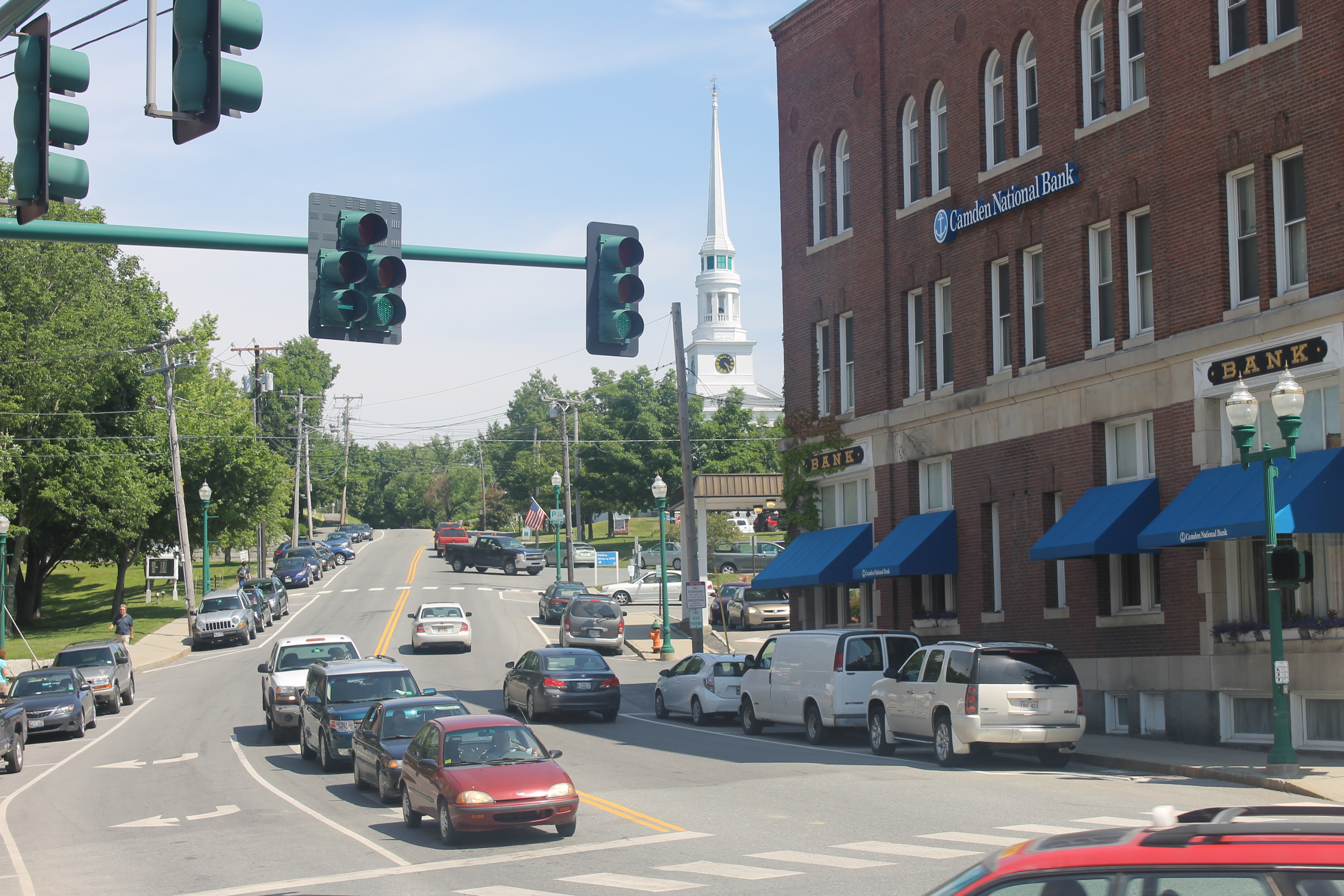 I took photo with Canon camera of downtown Ellsworth, ME.